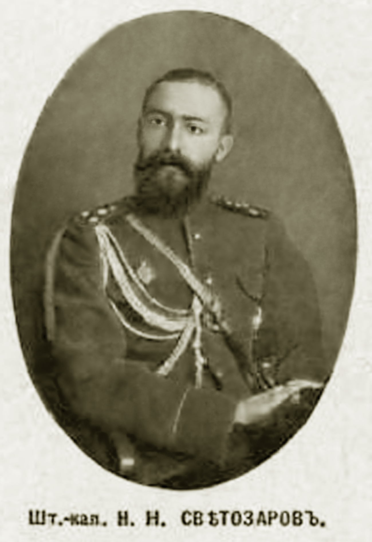 Svetozarov, Nikolay Nikolayevich